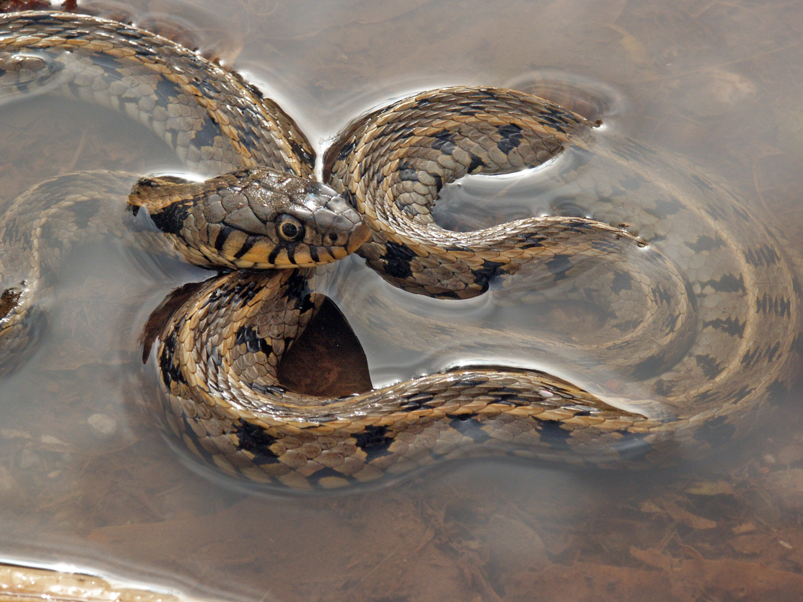 Description: Grass snake (Natrix natrix persa) Exif: 15.11.2004 09:35:05 - 200 mm - 0,75 m - 1/180 s - F 8,00 - ISO100 Source: taken in Ephesus by Fafner